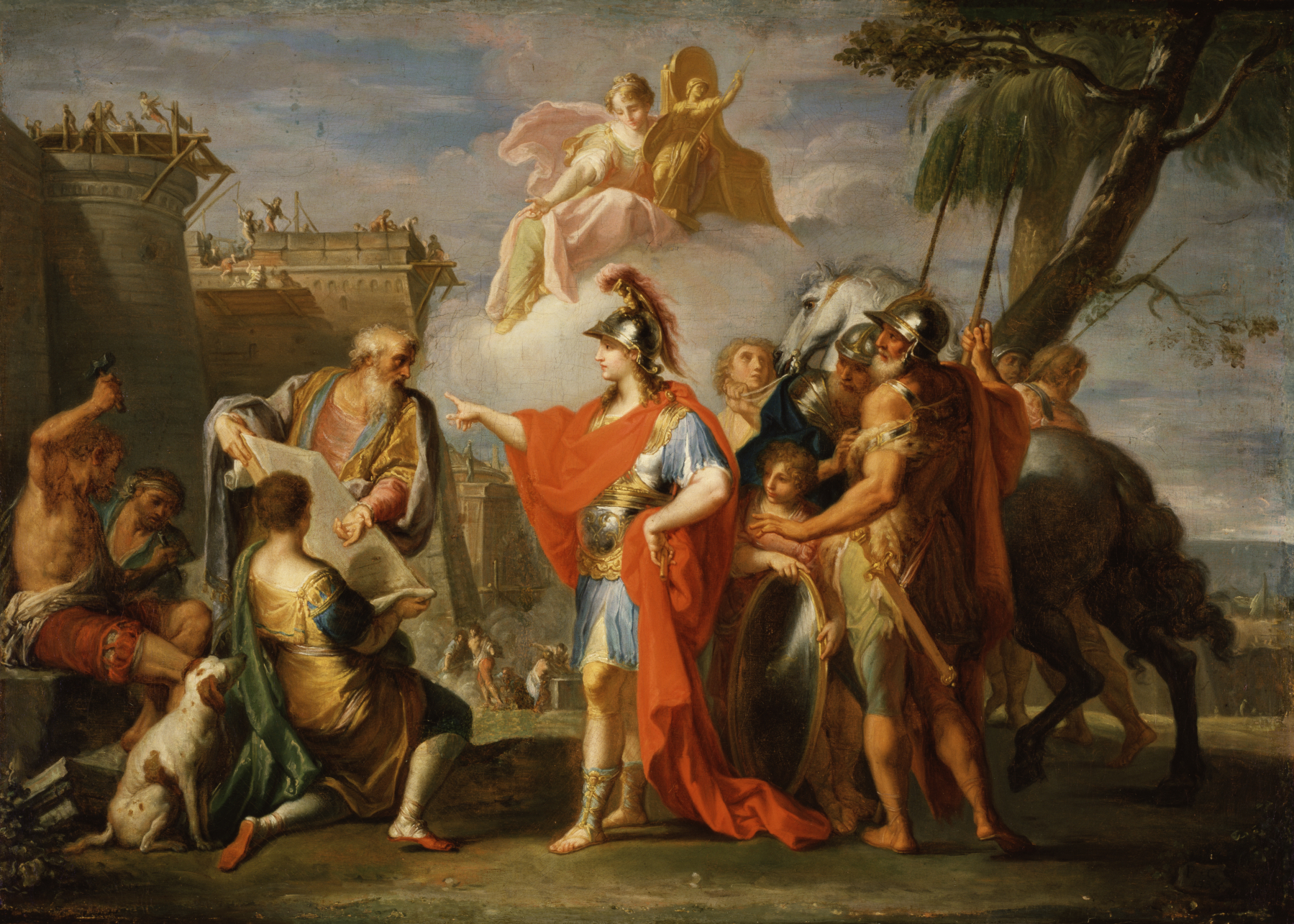 In conquests from Greece and Egypt to Afghanistan, the Macedonian ruler Alexander the Great (356-323 BC) founded cities-often named for himself-in key military and trading locations; Alexandria, in Egypt, is the only one still thriving today. Alexander was often involved in the planning; here, he gives instructions to the Greek architect Dinocrates. Behind them, massive walls are under construction. The painting is a "modello," or study, painted in preparation for one of the large canvases commissioned from the artist for the throne room of King Philip V of Spain in the Palace of San Idelfonso (La Granja). Halls where European rulers granted audiences to their subjects and to visiting emissaries were traditionally decorated with tapestries or paintings reinforcing the ruler's position by reference to the power and renown of rulers of the past, principally Alexander the Great or the Roman emperors. In keeping with his ancient theme, Costanzi